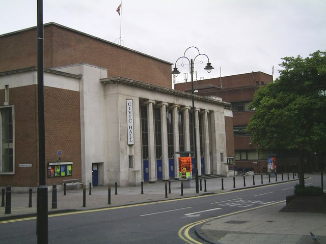 Civic Hall A large hall used for music, concerts and shows next to the Civic Centre.